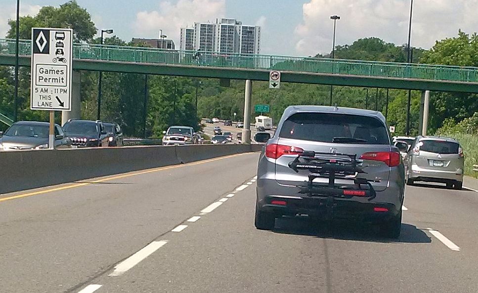 Temporary high-occupancy vehicle lanes on the Don Valley Parkway in Toronto, Canada for the 2015 Pan American Games.